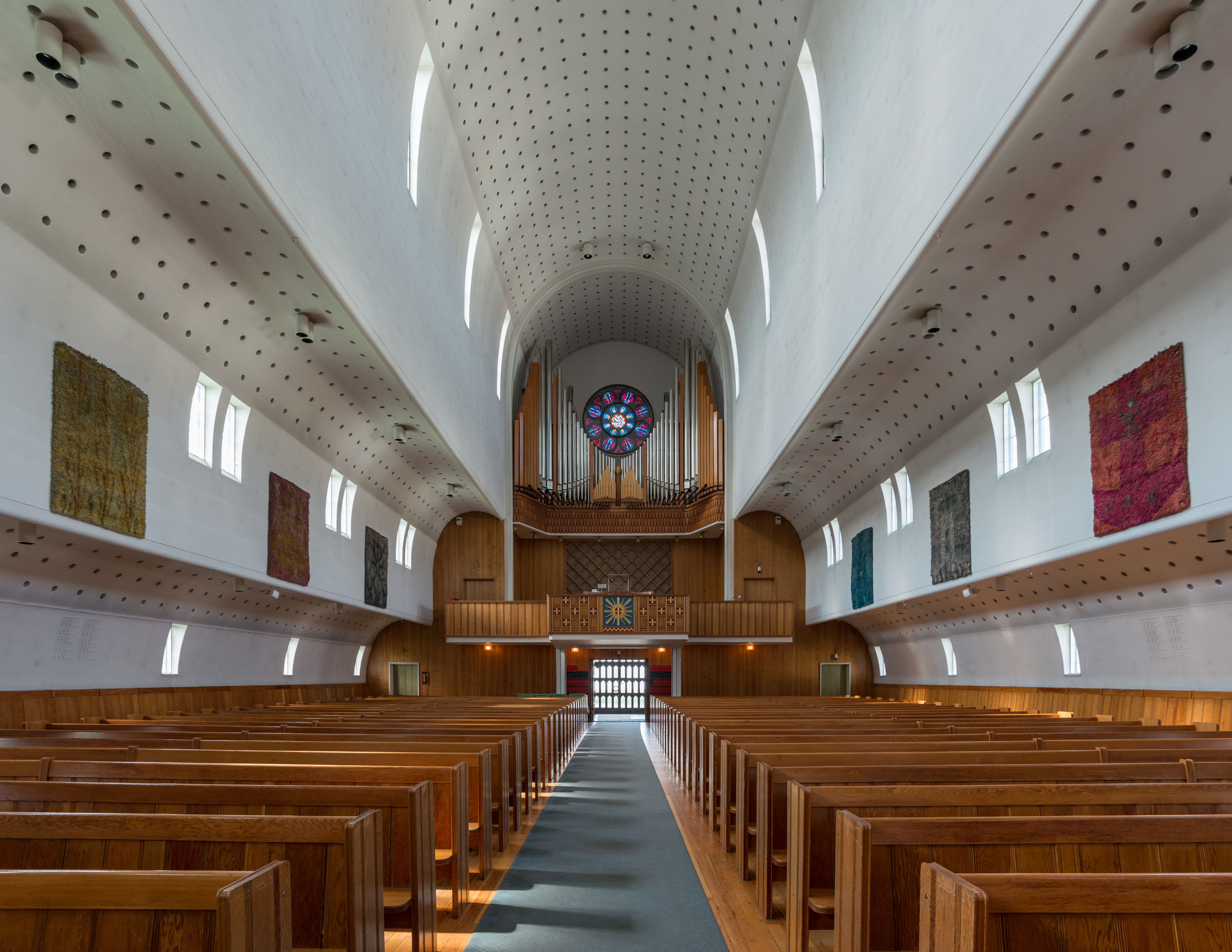 An interior view of Bodø Cathedral, looking towards the organ